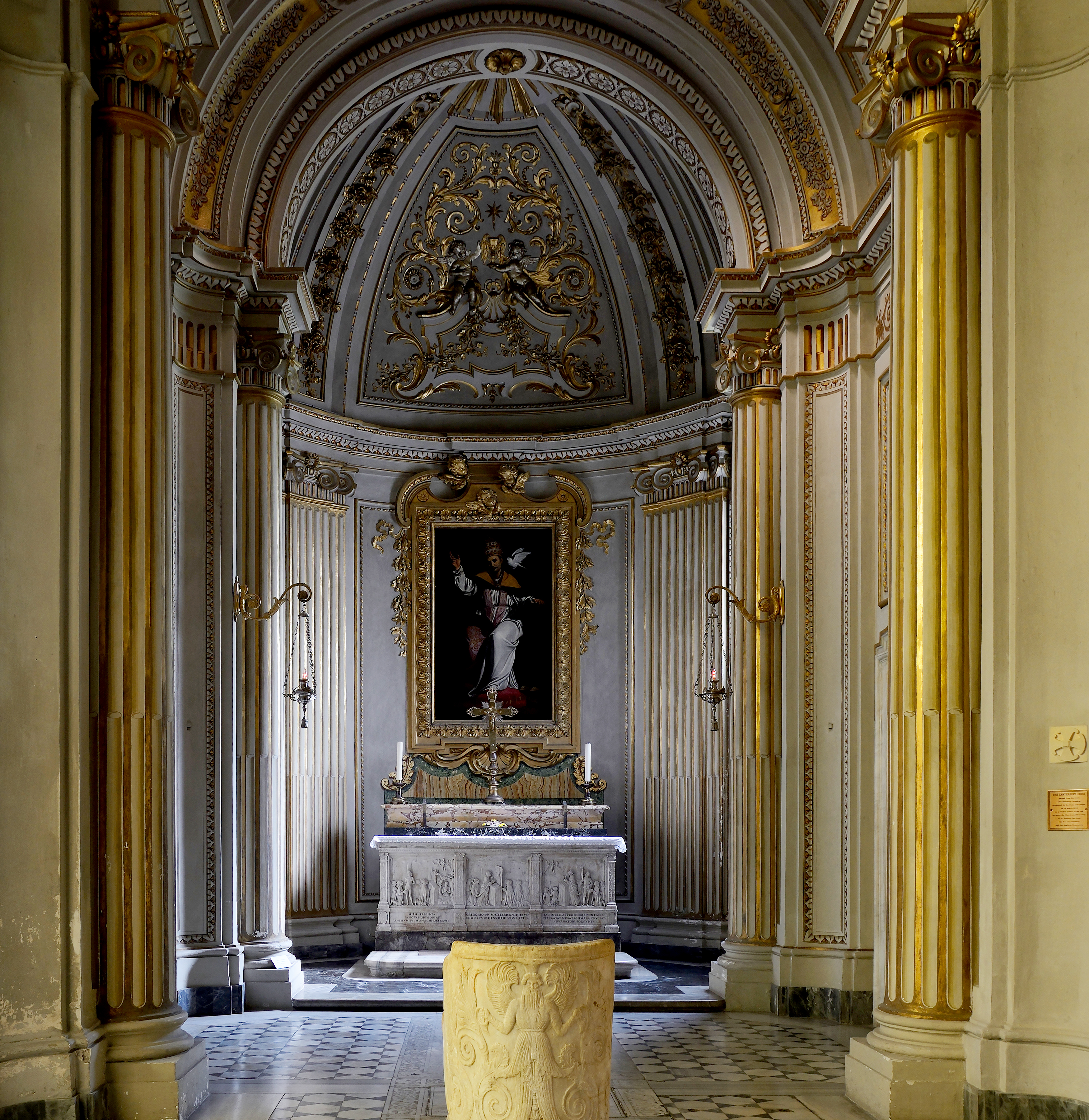 Chapel of St. gregory in San Gregorio al Celio (Rome)